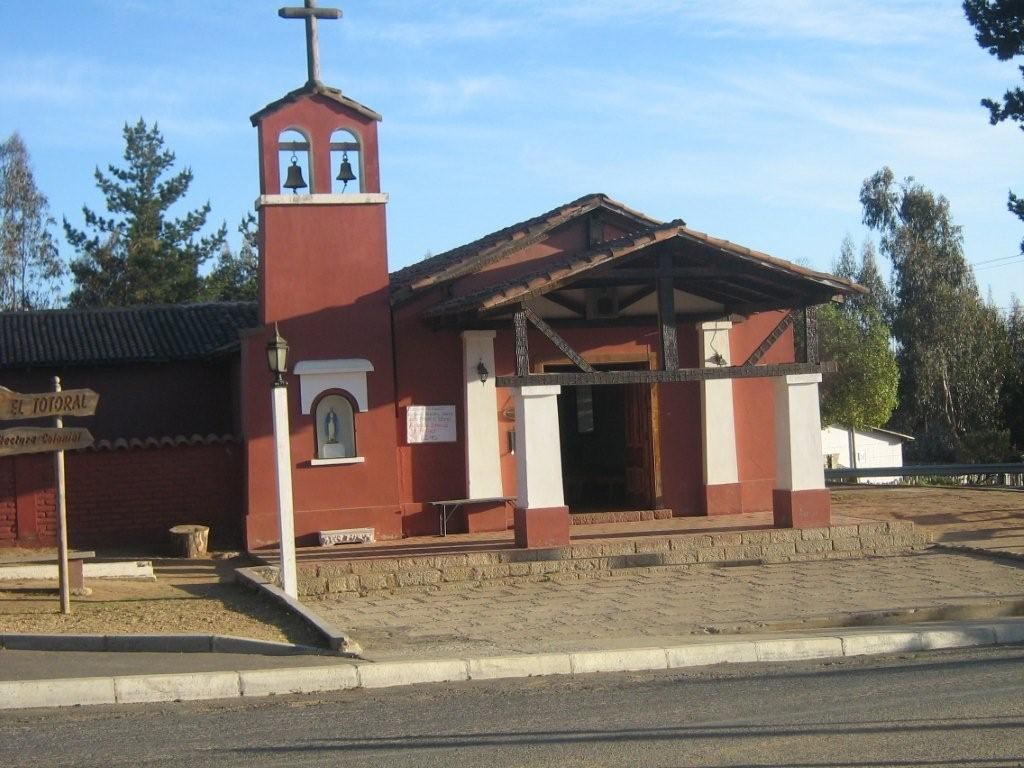 Church of El Totoral, near Valparaiso Chile